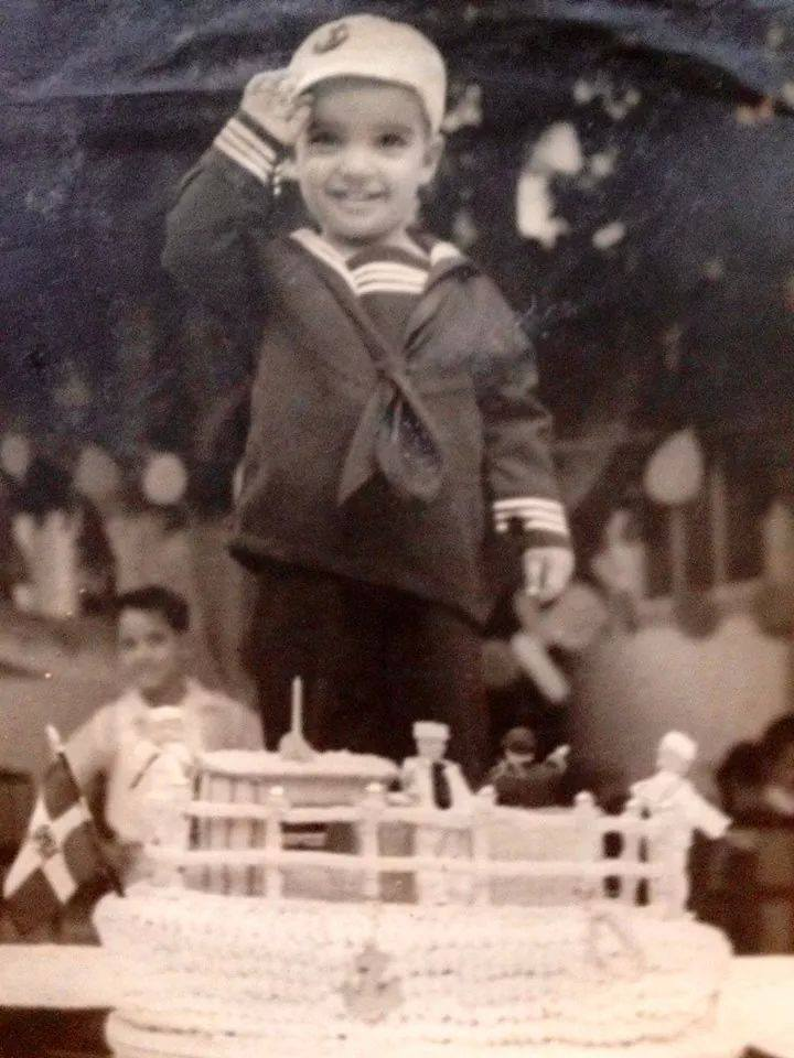 Desde pequeño dispuesto a servir